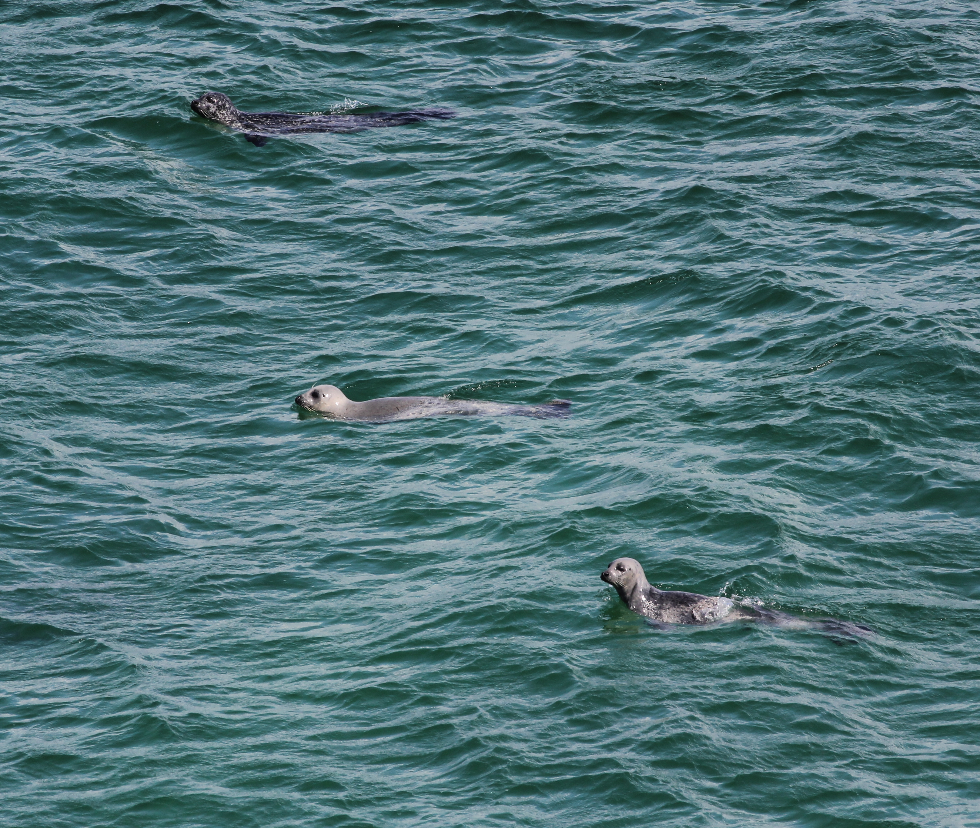 Three curious seals swimming off the coast of Anholt.